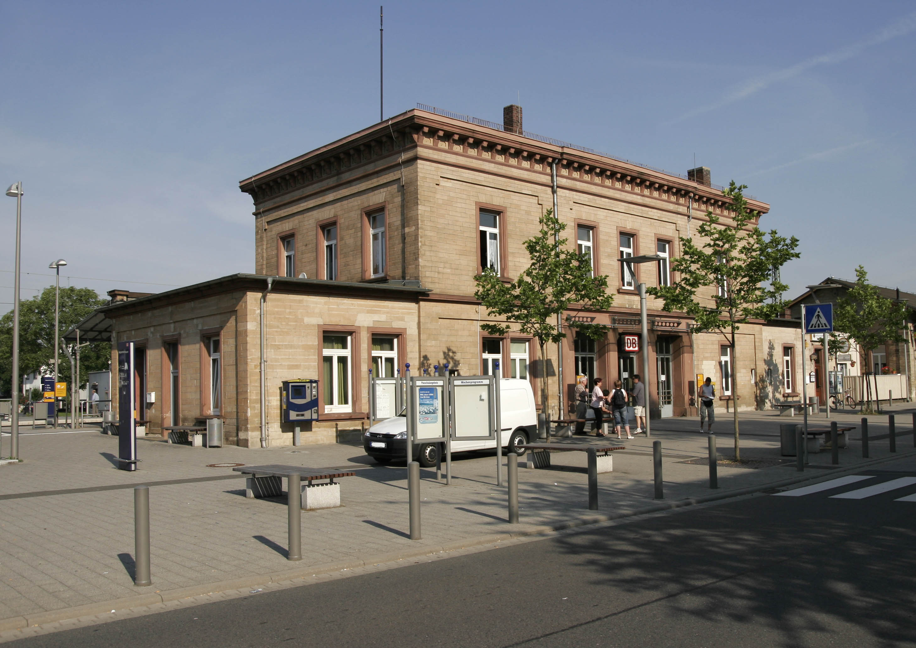 Railwaystation Heppenheim (Bergstraße), Germany.